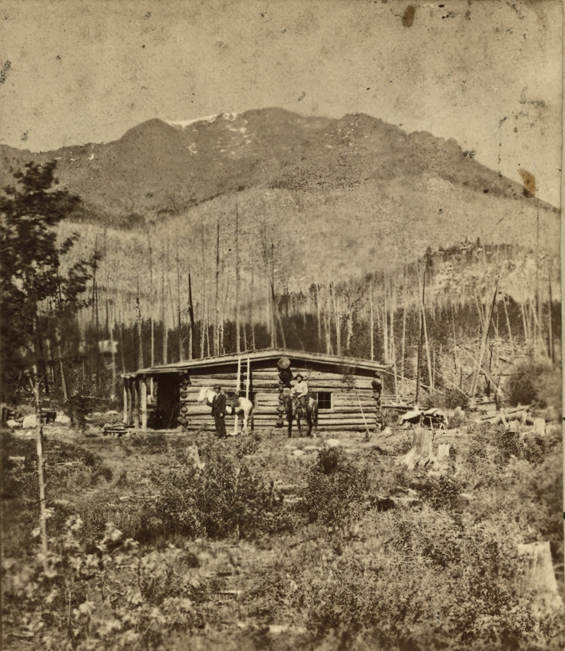 Stone & Company (Firm) -- Photographer - Original source: Robert N. Dennis collection of stereoscopic views. / United States. / States / Colorado. / Stereoscopic views of Pikes Peak, Colorado. (Approx. 72,000 stereoscopic views : 10 x 18 cm. or smaller.) digital record This image is available from the New York Public Library's Digital Library under the digital ID G90F047_046ZF